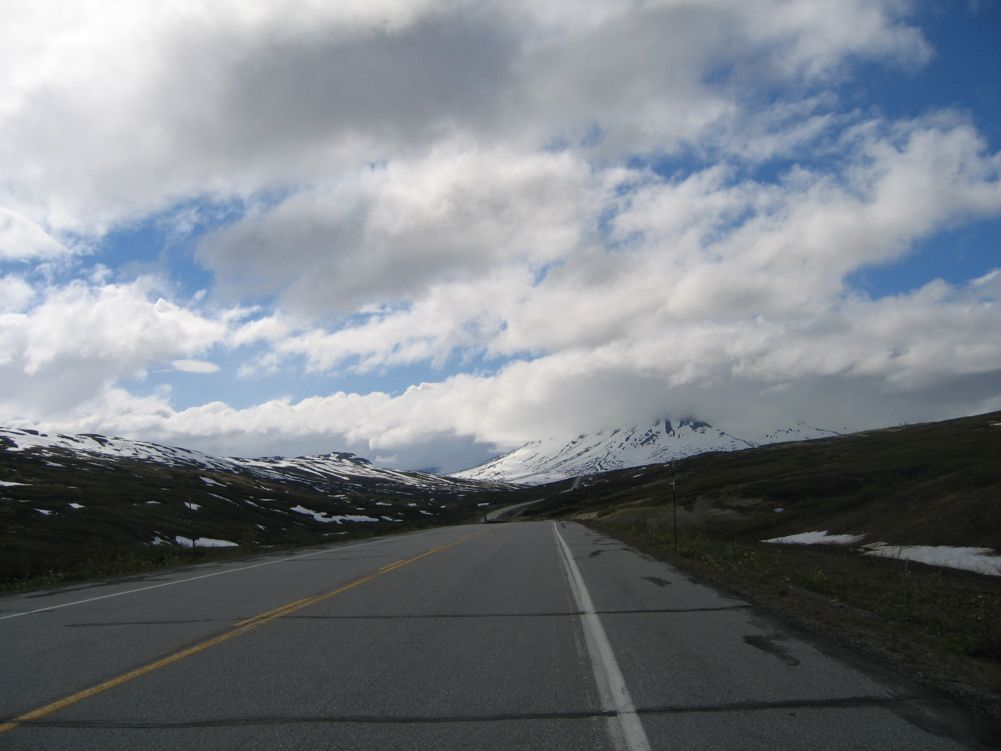 Photo by Micah Bochart, Haines Highway, Chilkat Pass